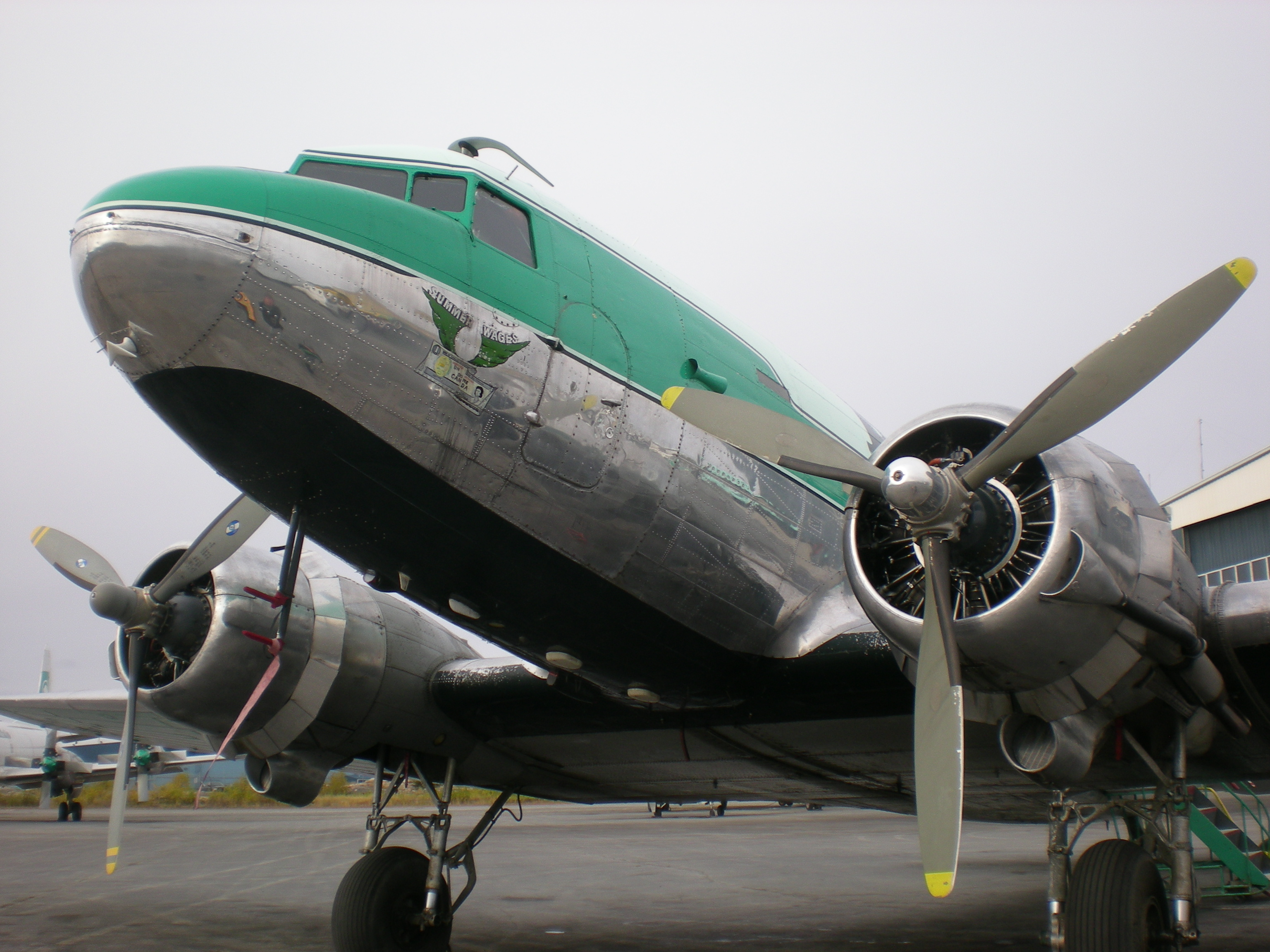 Nose of a Buffalo Airways DC3 at Yellowknife, Northwest Territories, Canada. This is the first aircraft purchased by "Buffalo" Joe McBryan as indicated by the "Summer Wages" sign.